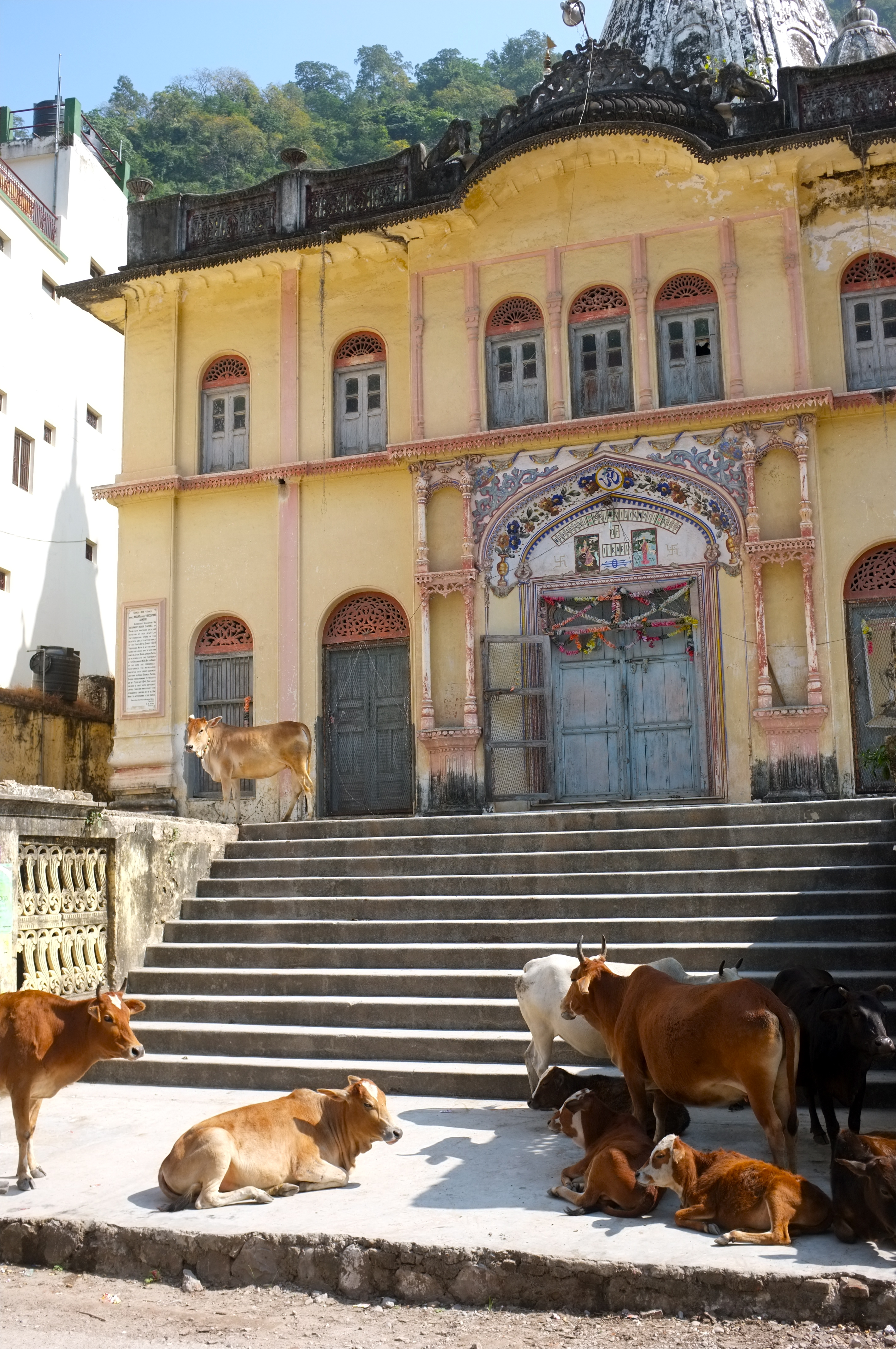 Haveli of Maharani of Tekari (Tikari), in present Gaya District, Bihar, on the Ganges Rishikesh.